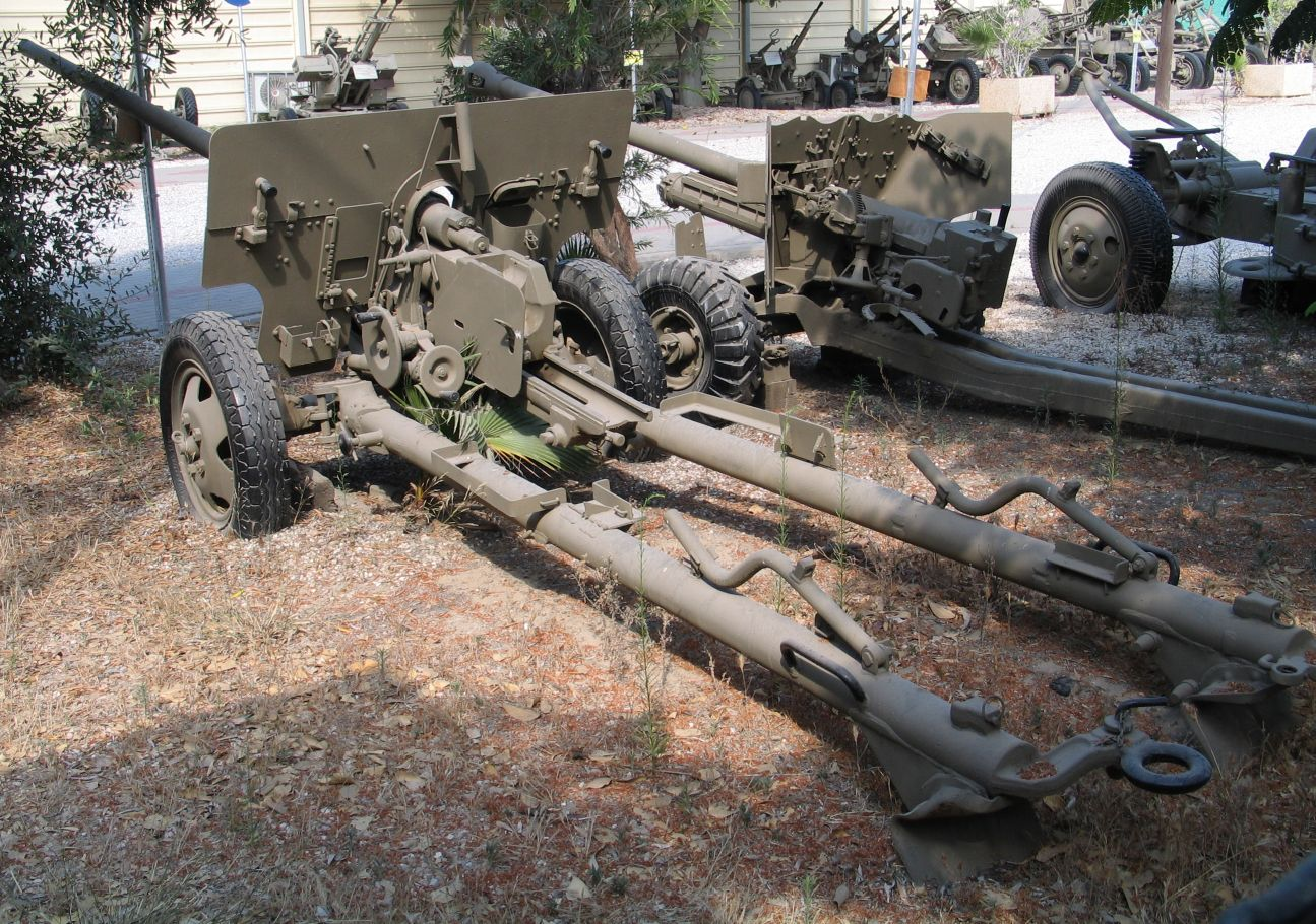 Soviet 57-mm antitank gun ZiS-2 in Batey ha-Osef Museum, Tel Aviv, Israel.